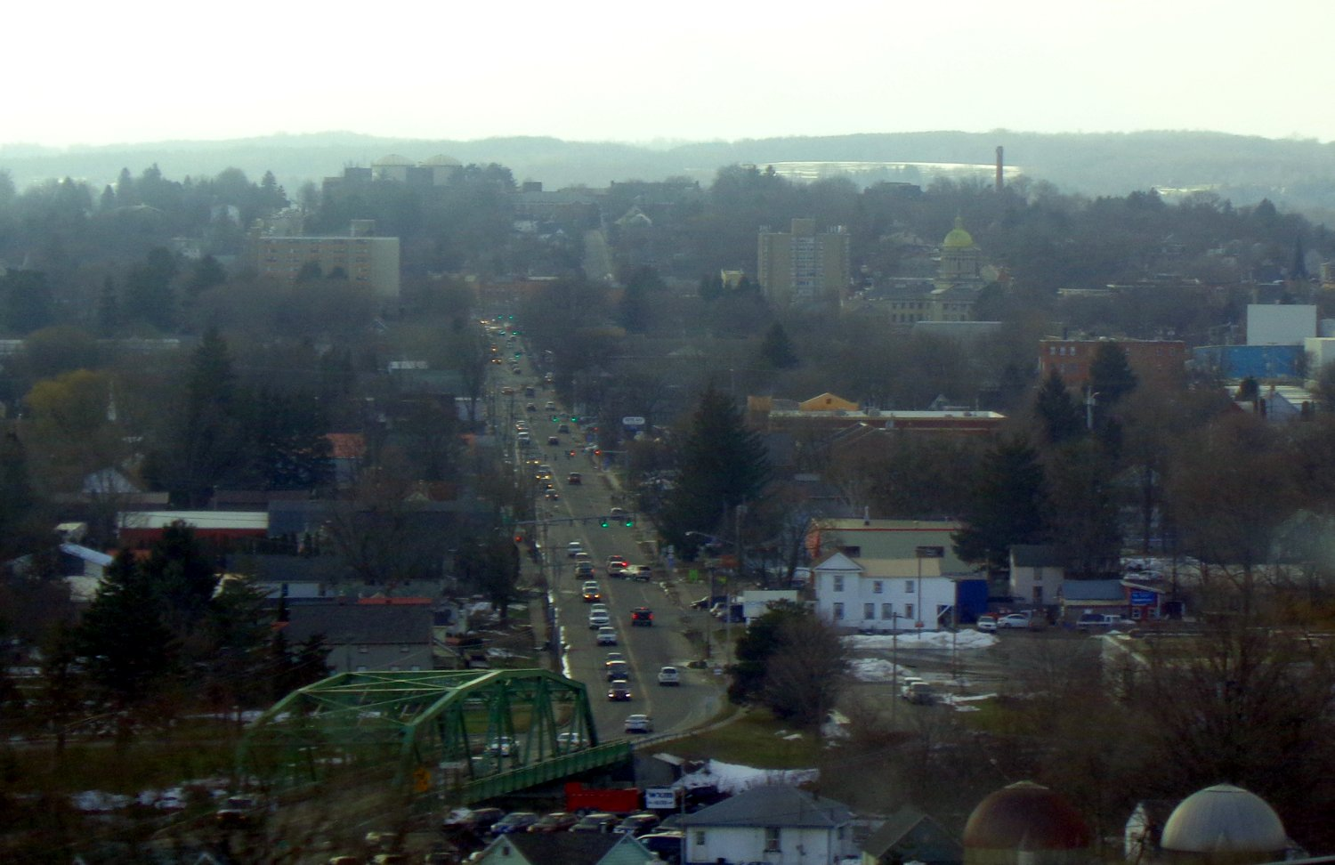 Central Cortland looking west from I-81